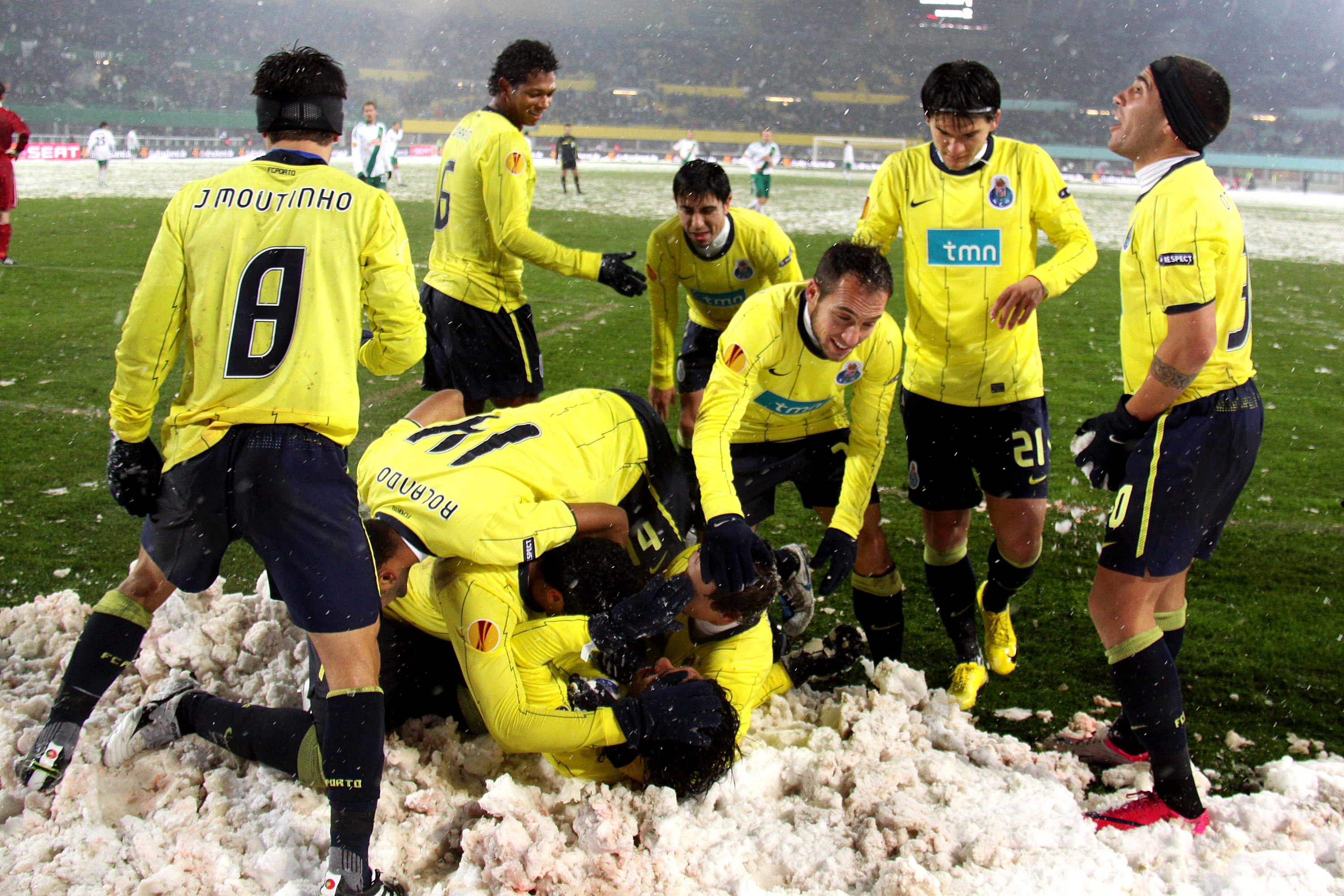 2010–11 UEFA Europa League - SK Rapid Wien vs. F.C. Porto 1:3, Ernst-Happel-Stadion (Vienna) – Radamel Falcao (#9) scored his 3rd goal. Portos players are jubilant in the snow unusual for it.